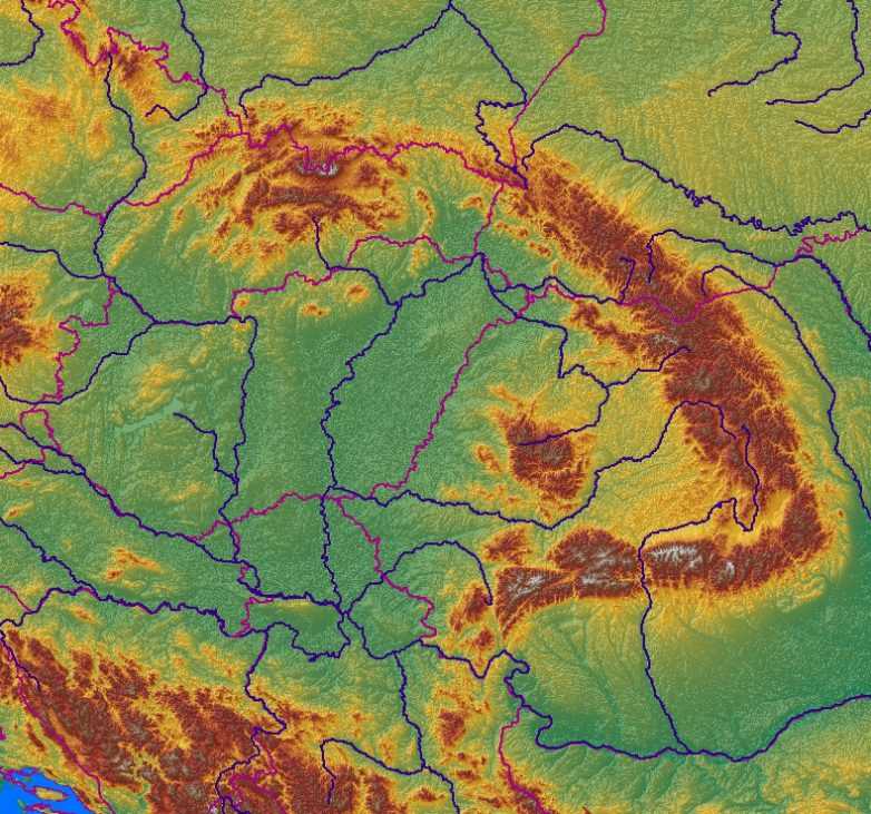 Surface_of_Carpathians